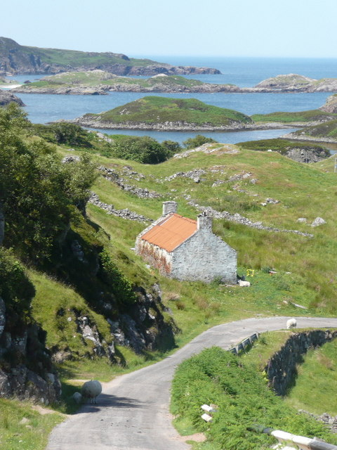 Derelict cottage at Culkein Drumbeg The jetty and Oldany Island in the distance.